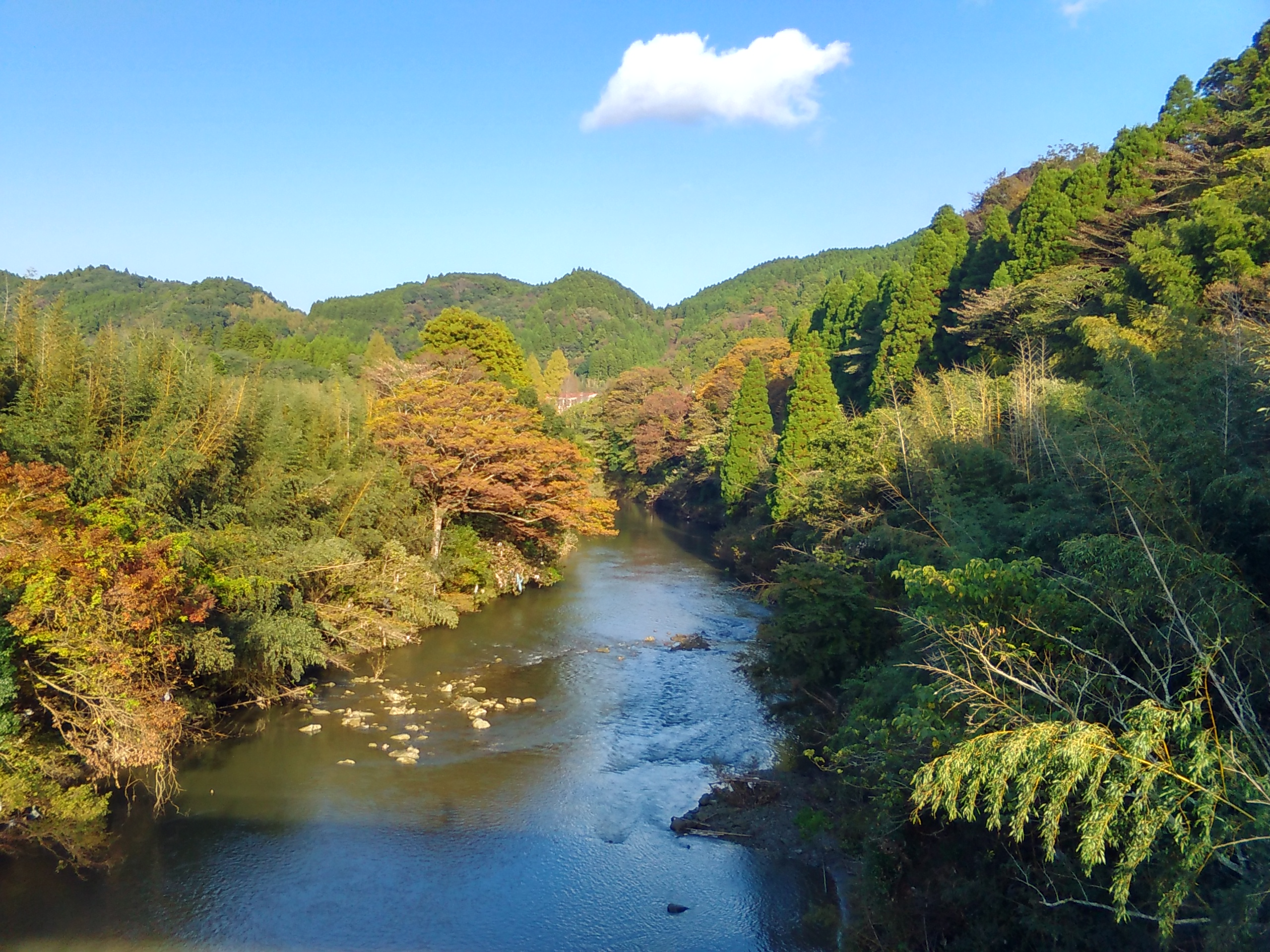 Isumi River near Saniku Gakuin College located in Otaki, Chiba, Japan.